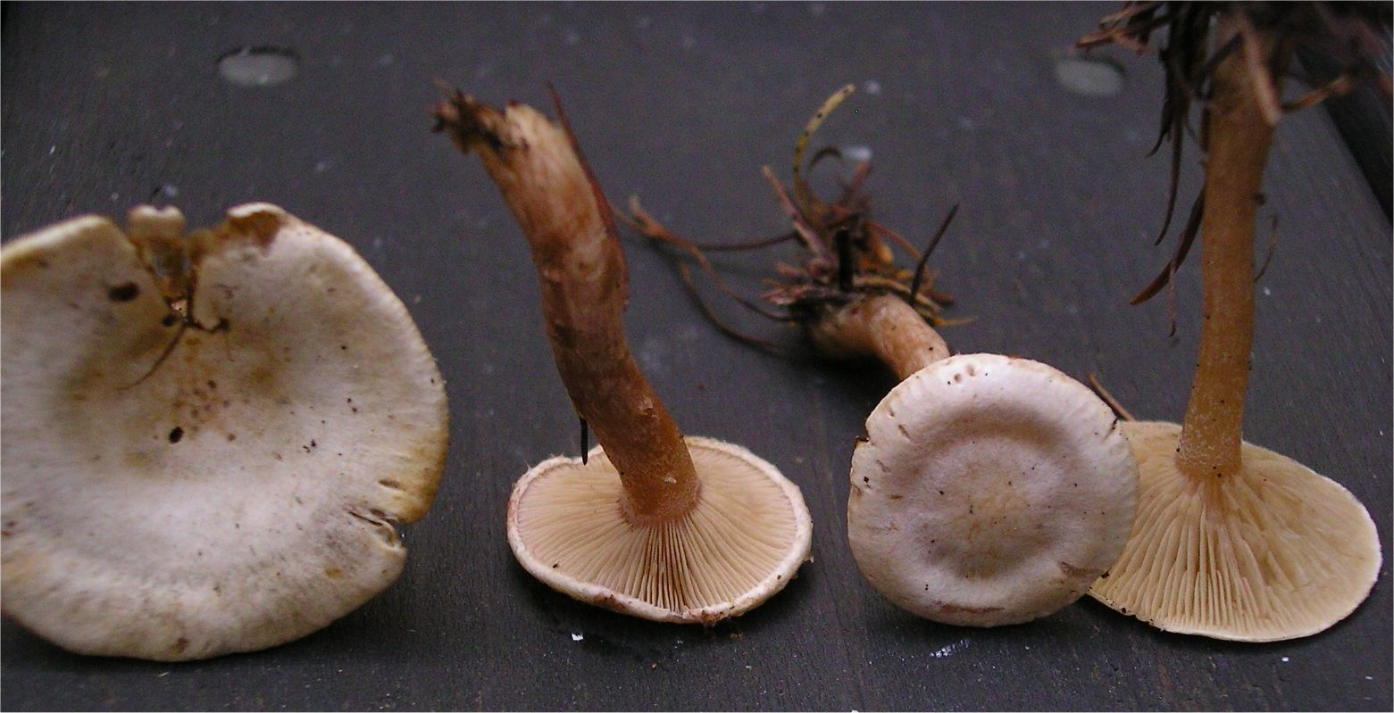 The fungus Ripartites tricholoma (Alb. & Schwein.) P. Karst. Specimens collected in Hörnefors, Västerbotten, Sweden.